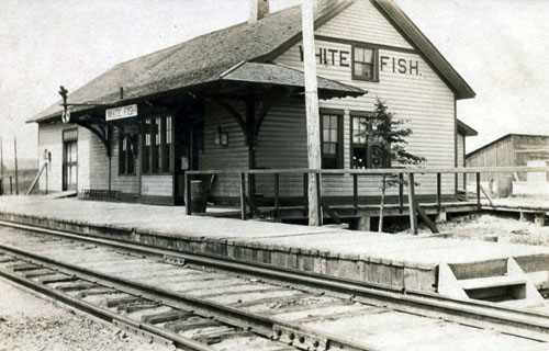 Photograph of the Canadian Pacific Railway station in Whitefish, Ontario, Canada, taken circa 1911.